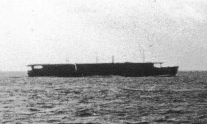 Imperial Japanese Navy's Taiyo-class aircraft carrier UNYO, on the way from Chuuk Islands to Yokosuka Naval Base.